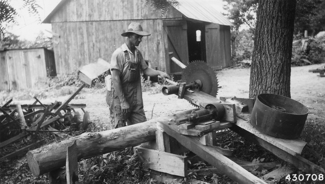 Scope and content: Original caption: Swing saw for cutting firewood built by Geo. Springer.